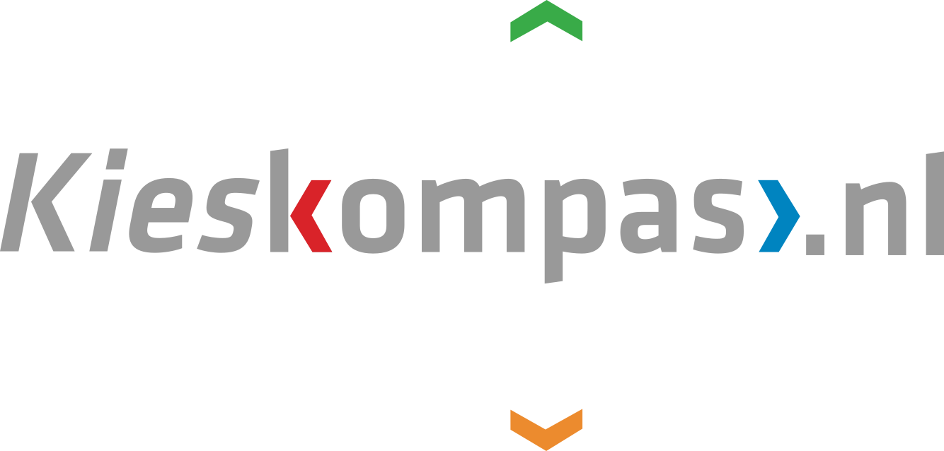 This is the Kieskompas Logo.